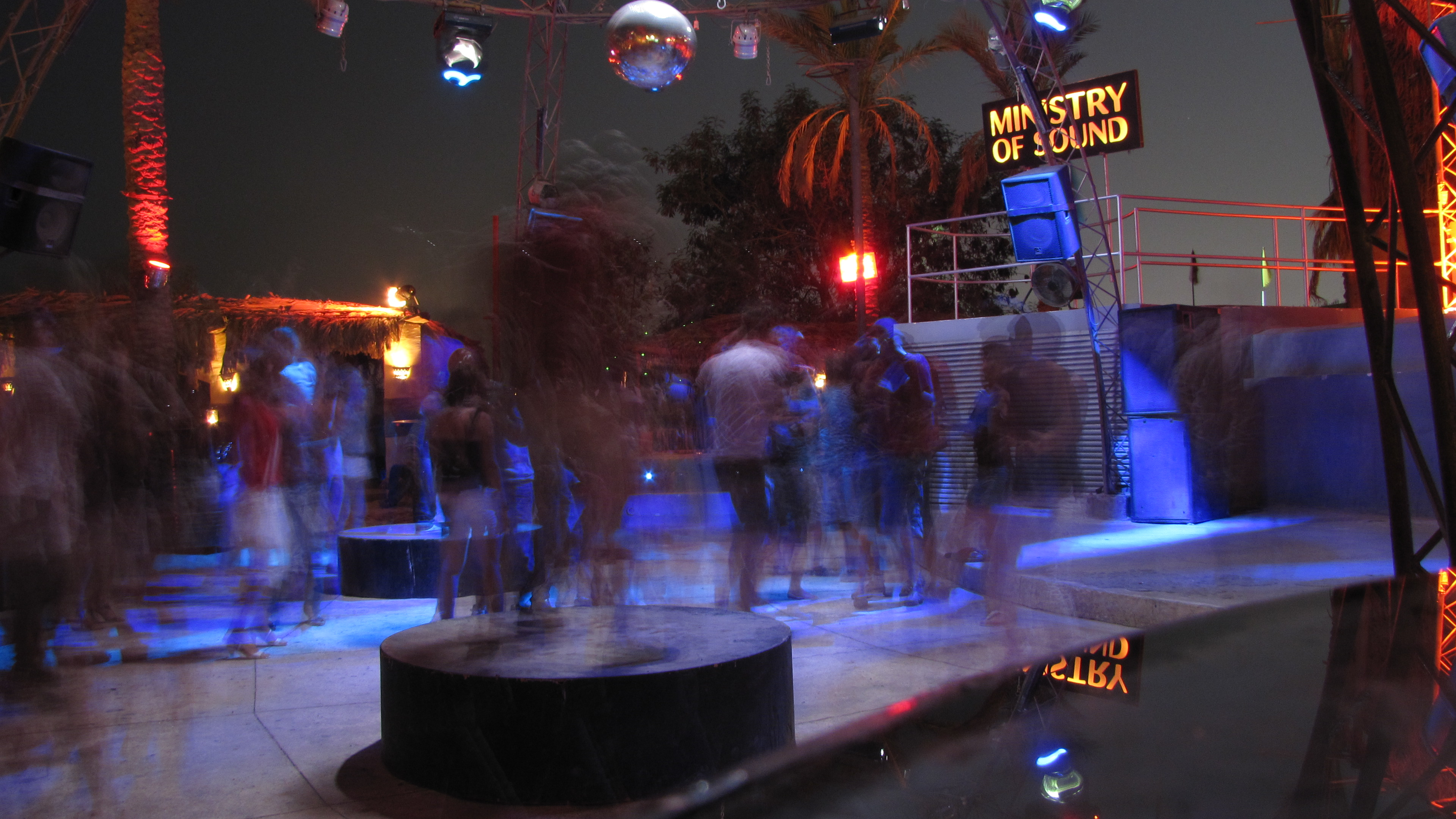 Ministry of Sound Beach Club in Hurghada, Egypt